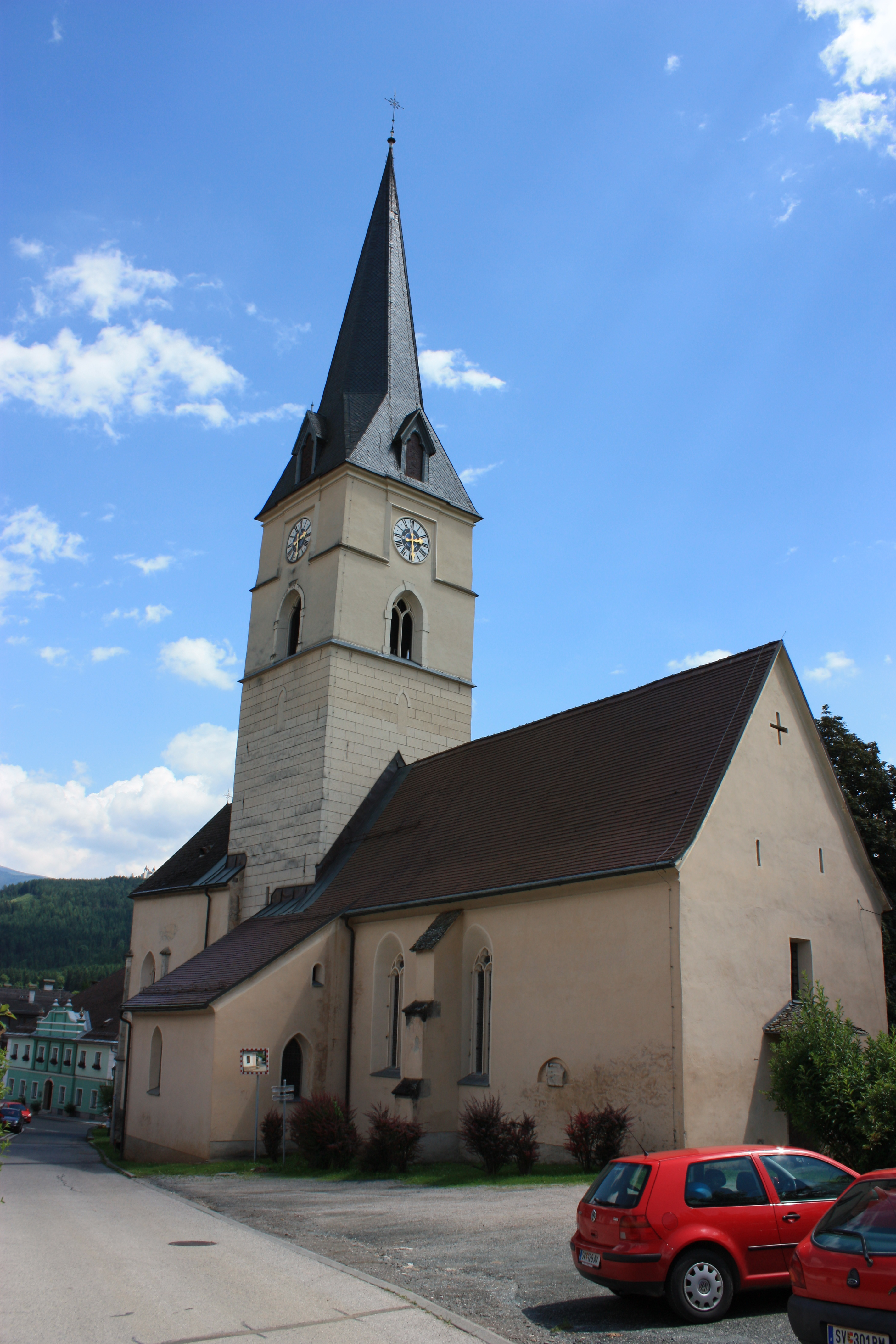 Parish church of Guttaring Locality:Guttaring Community:Guttaring District:Sankt Veit an der Glan State:Carinthia Country:Austria